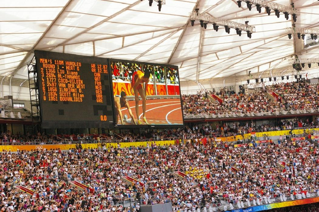 Chinese 110 metre hurdler LIU Xiang at Beijing 2008 Olympics; Beijing National Stadium; Beijing, P.R.China.